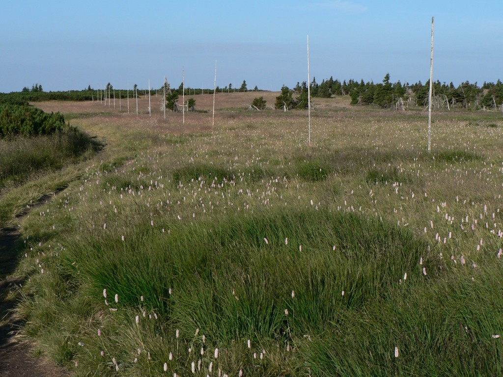 Top of Velky Maj mountain in Hruby Jesenik.